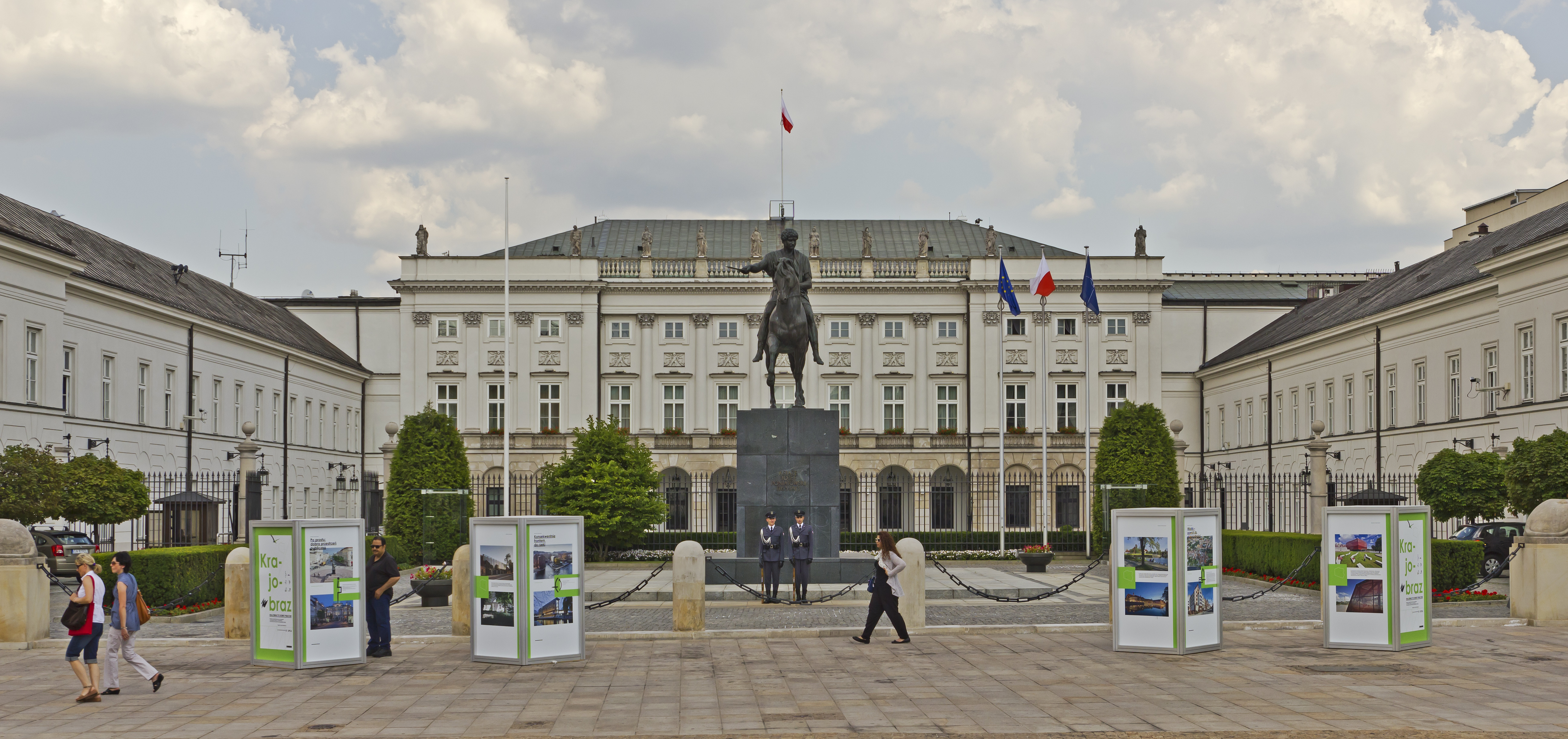 The Presidential Palace in Warsaw (Poland)